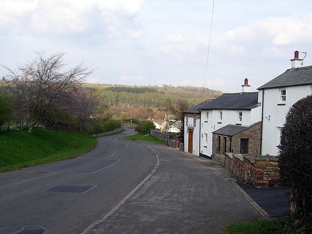 B5299 entering Caldbeck